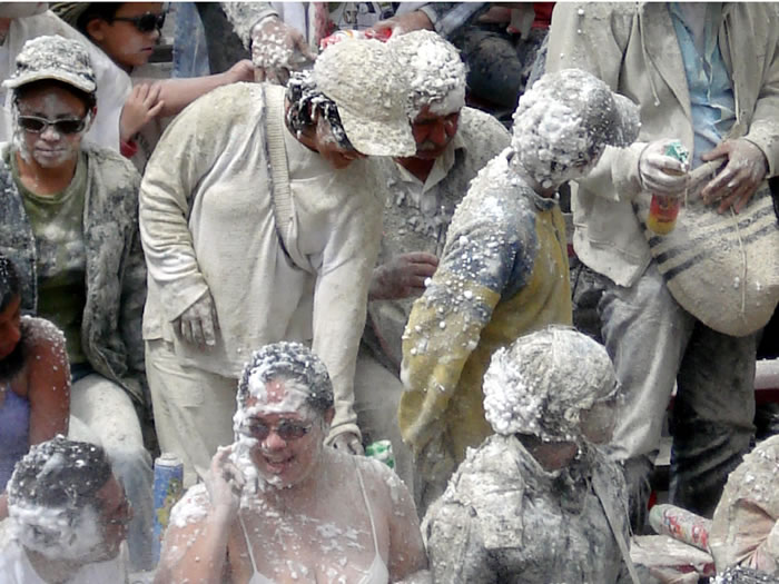 Blacks and Whites Pasto Carnival Player